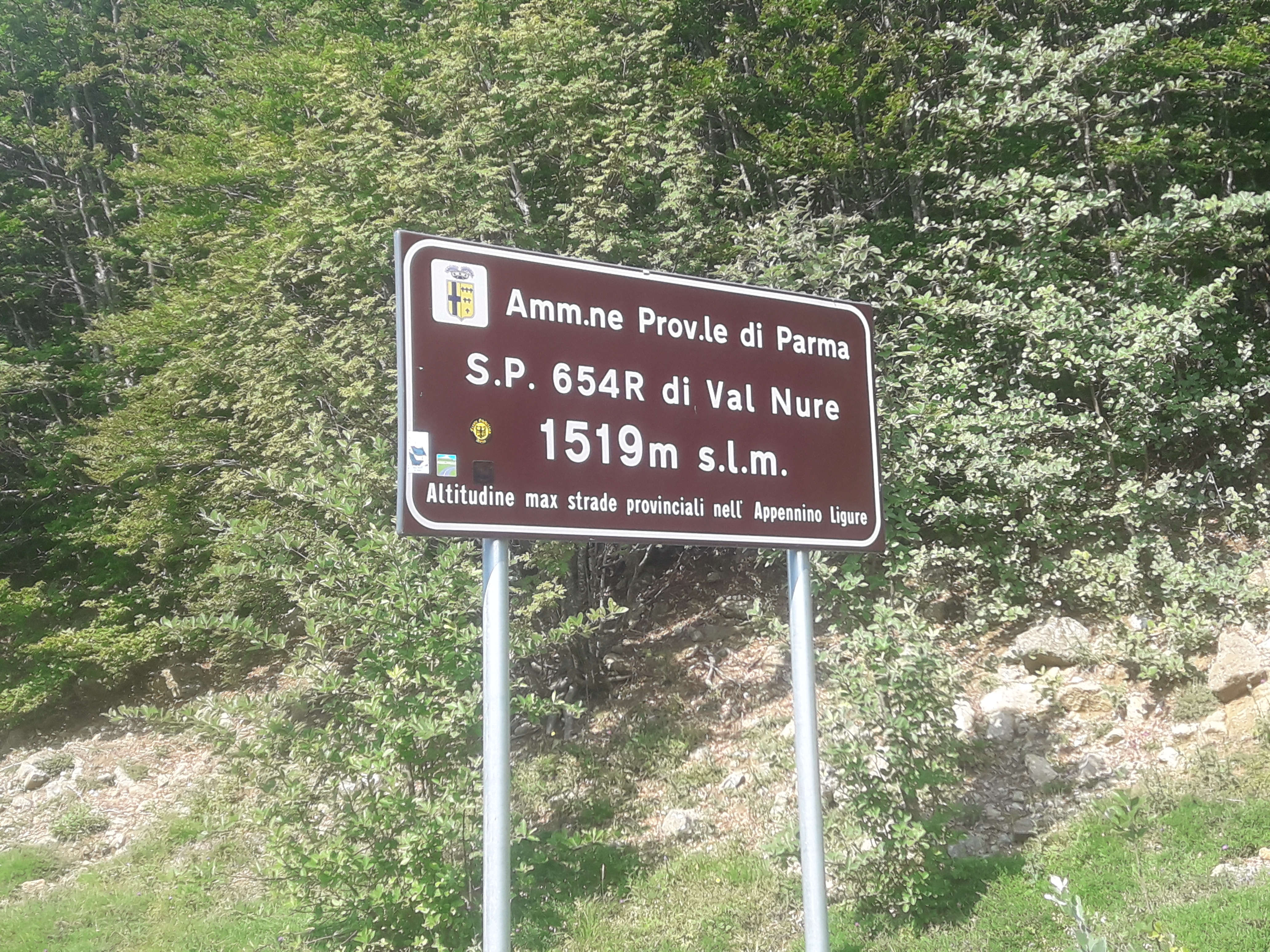 Cartel at the point in which the highway 654 reaches the highest point reached by a provincial road in the Ligurian Appennines, municipality of Bedonia, Parma, Italy.